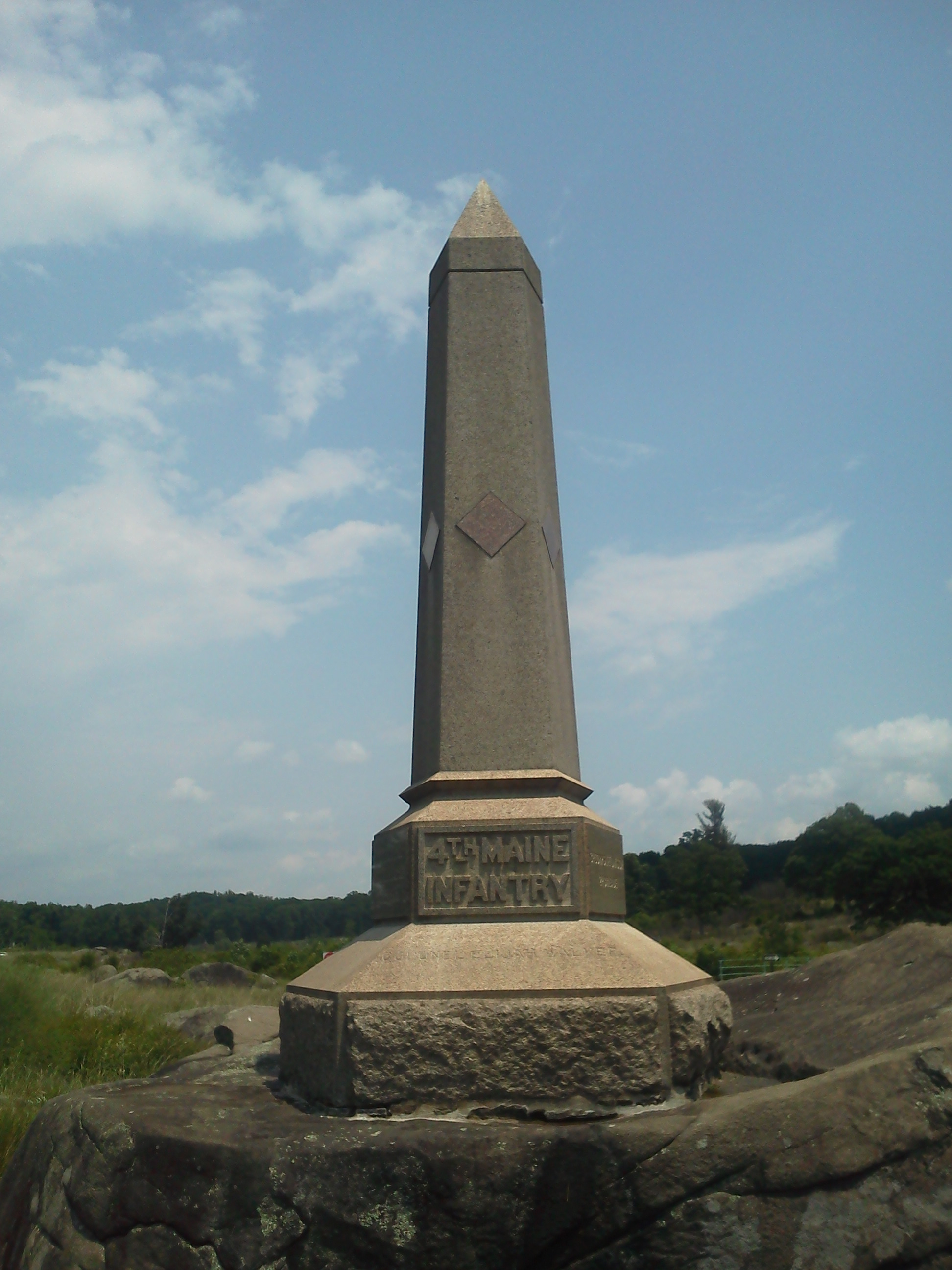 The 4th Maine Volunteer Infantry Regiment Monument found in the Devil's Den area of Gettysburg Battlefield